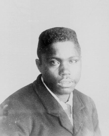 Portrait of Hova man (Madagascar)